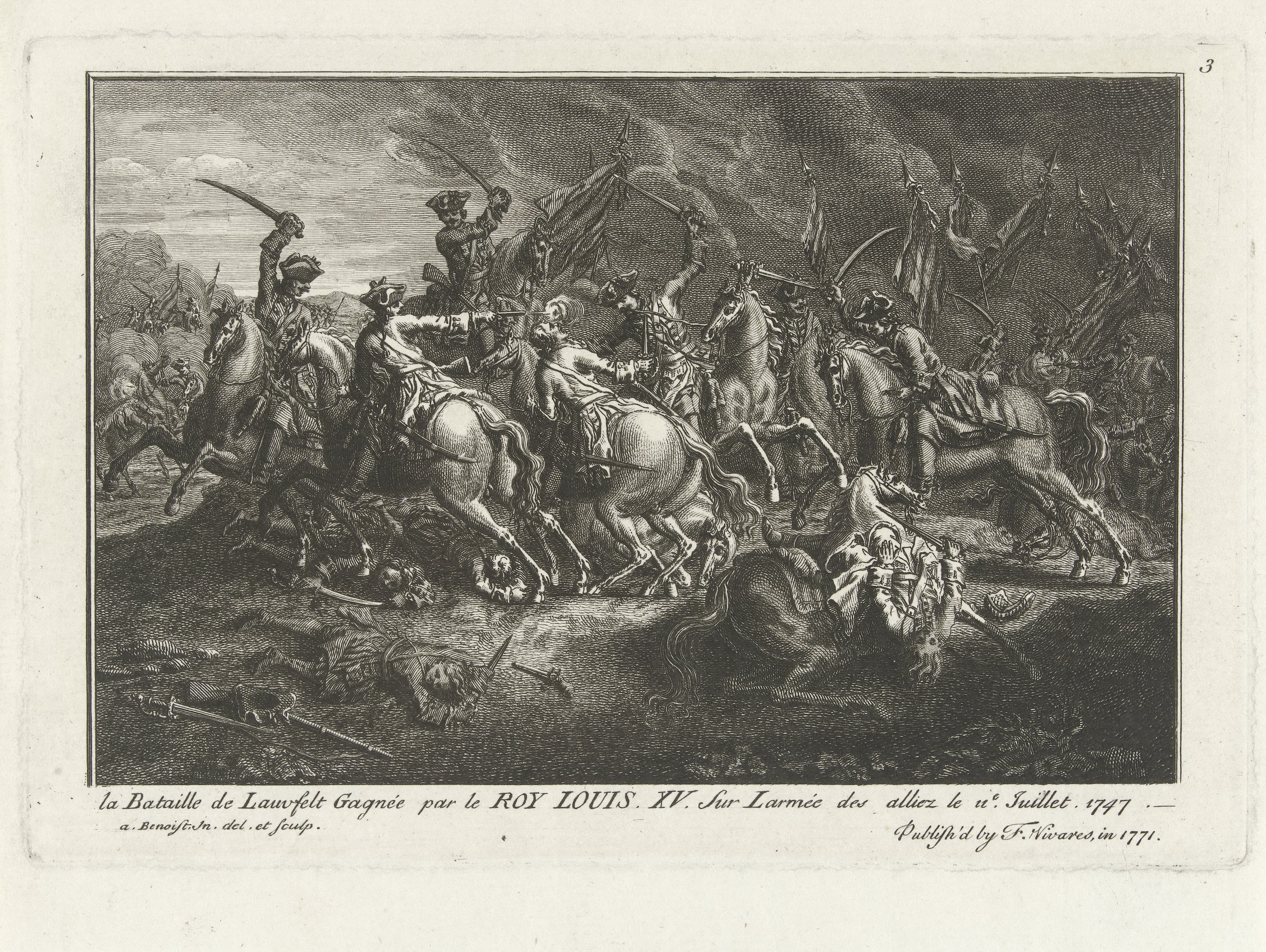 View of the Battle of Lauffeldt (Lafeld, near Maastricht) on 2 July 1747 during the War of Austrian Succession. Collection: Rijksmuseum Amsterdam